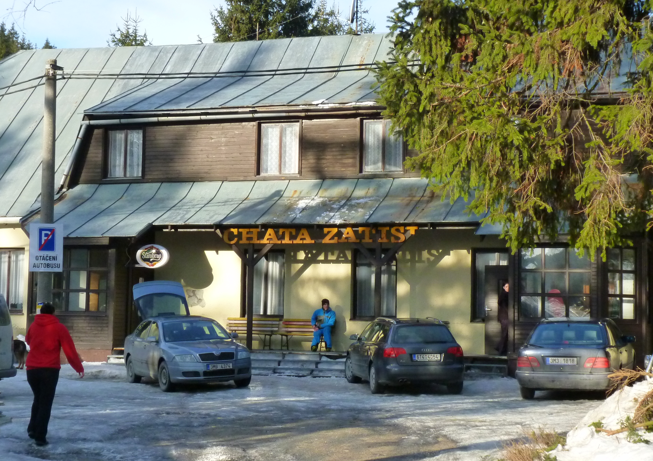 Karlov pod Praděděm - Malá Morávka, Bruntál District, Moravian-Silesian Region, Czech Republic Project: Chráněná území